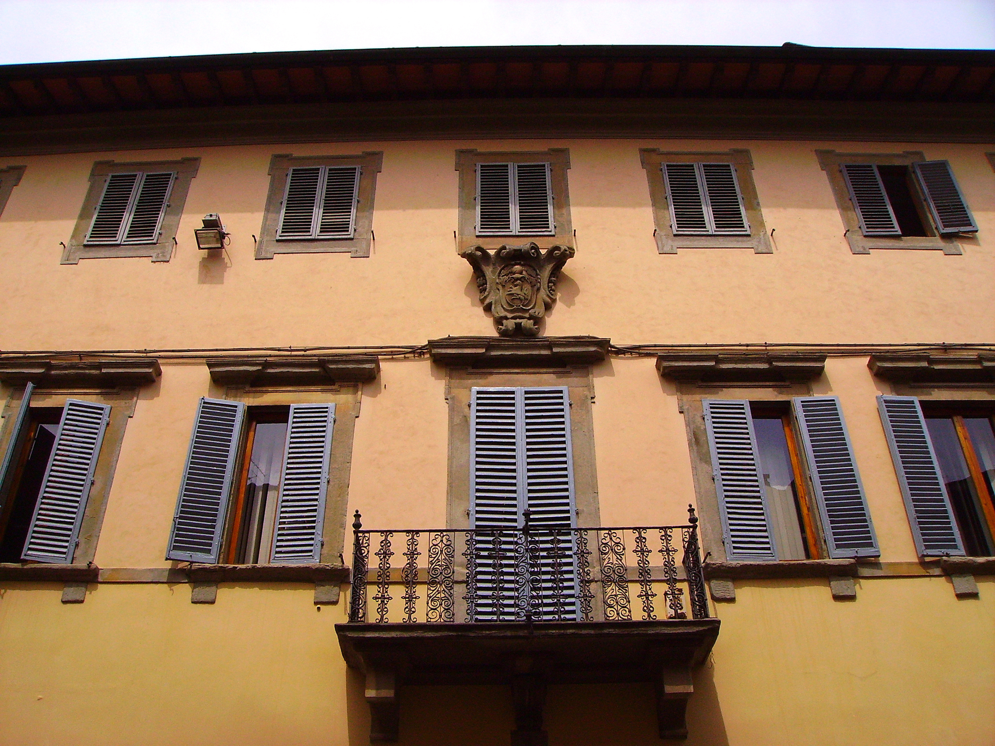 The façade of Palazzo Mari in the main street of Montevarchi